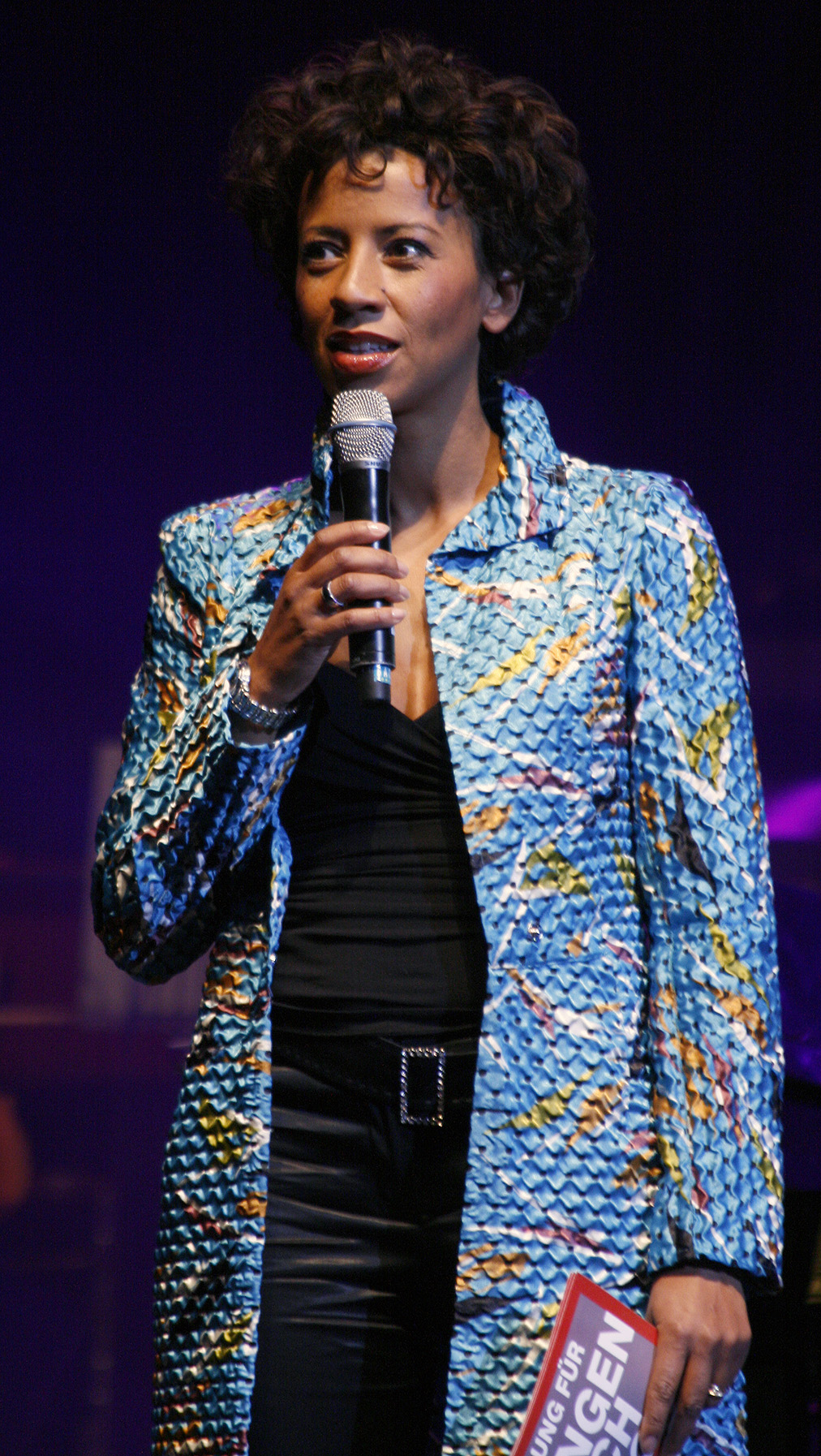 Arabella Kiesbauer; presenting the charity concert 'atemberaubend 08' in support of researching pulmonary hypertension (lungenhochdruck.at) at the Wiener Stadthalle.